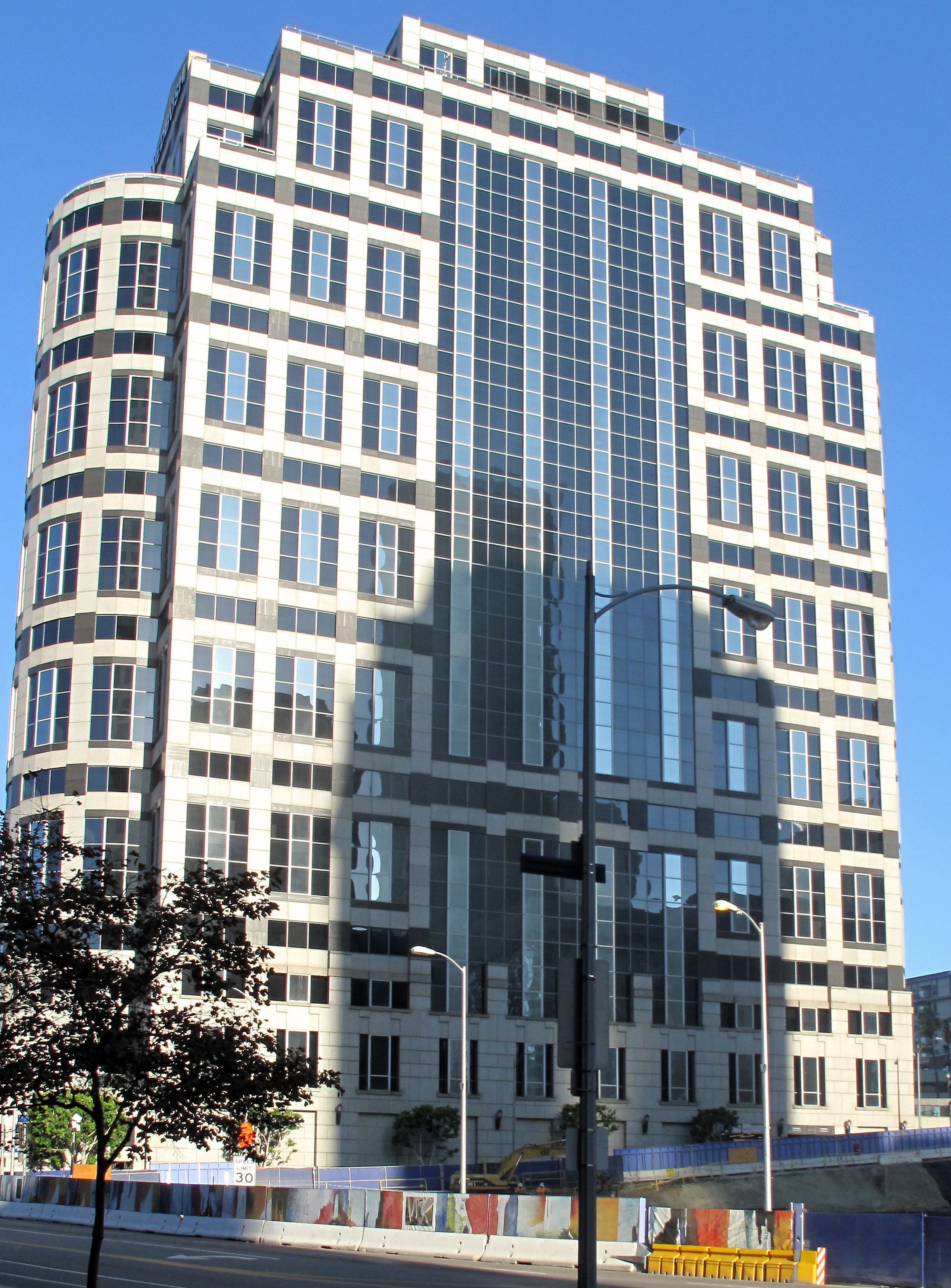 1000 Wilshire, the Wedbush Morgan Securities Building in Downtown Los Angeles, California. The east facade of this building has been obscured by the now-demolished Wilshire Grand Hotel, and will be obscured by the Wilshire Grand office tower now under construction.